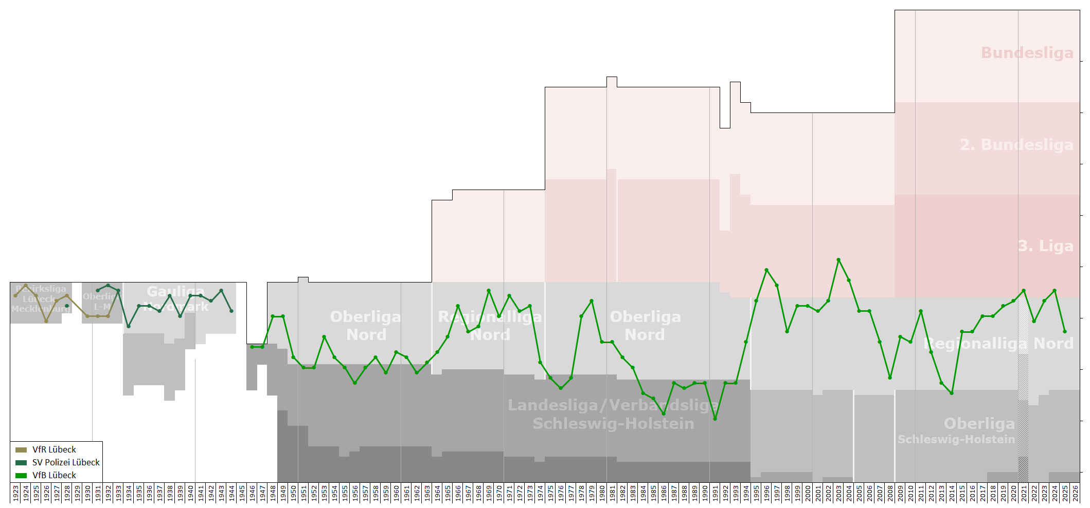 Chart of end-season table positions of VfB Lübeck in the football league system of Germany. Data source: RSSSF, wikipedia, f-archiv.de, fussball.de